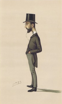 Caricature of Mr TM Healy MP. Caption read "Tim".